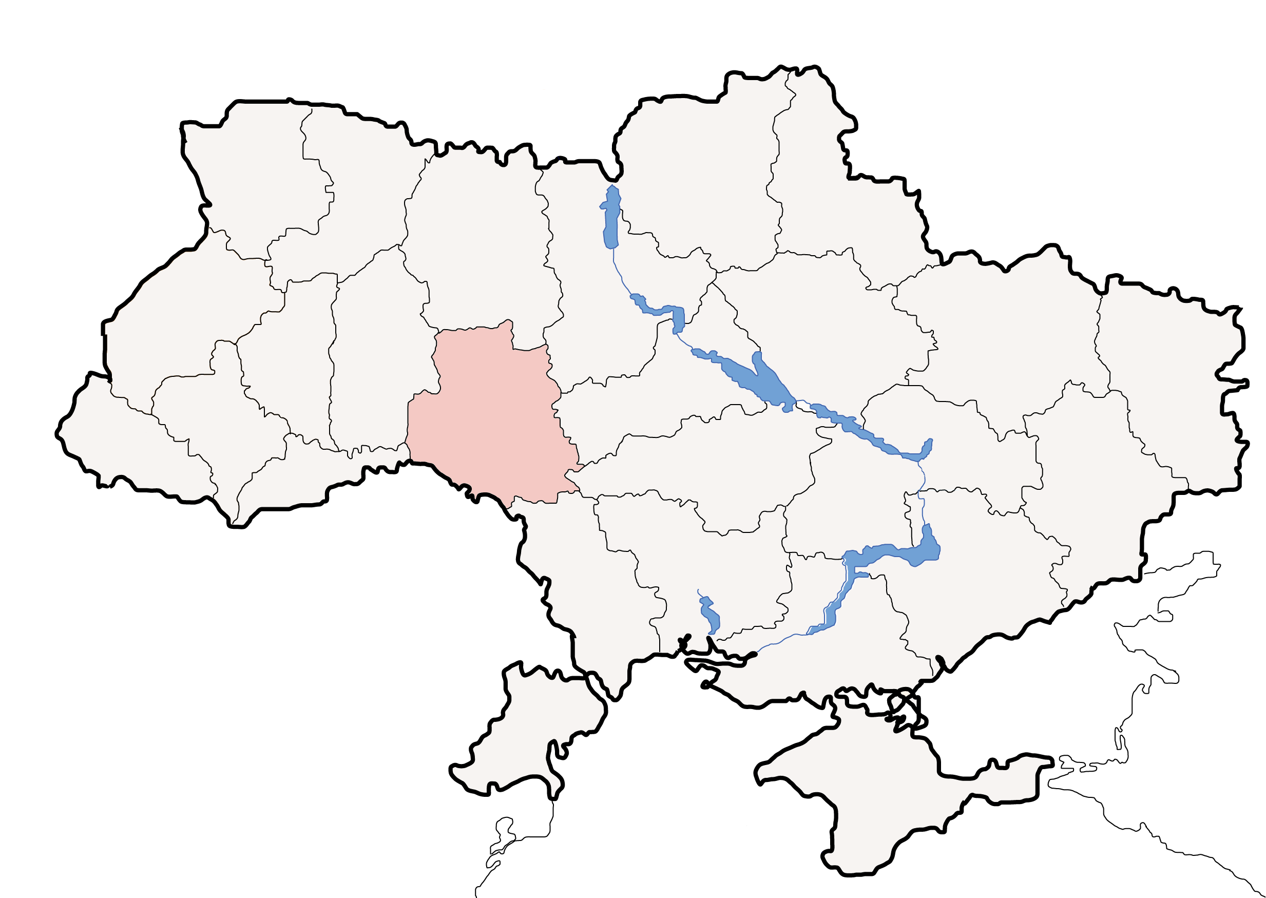 Political map of Ukraine, highlighting Vinnytsia Oblast